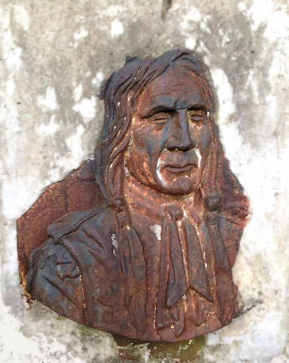 Iron image of a Native-American-looking man (Wauhatchie) set in concrete.